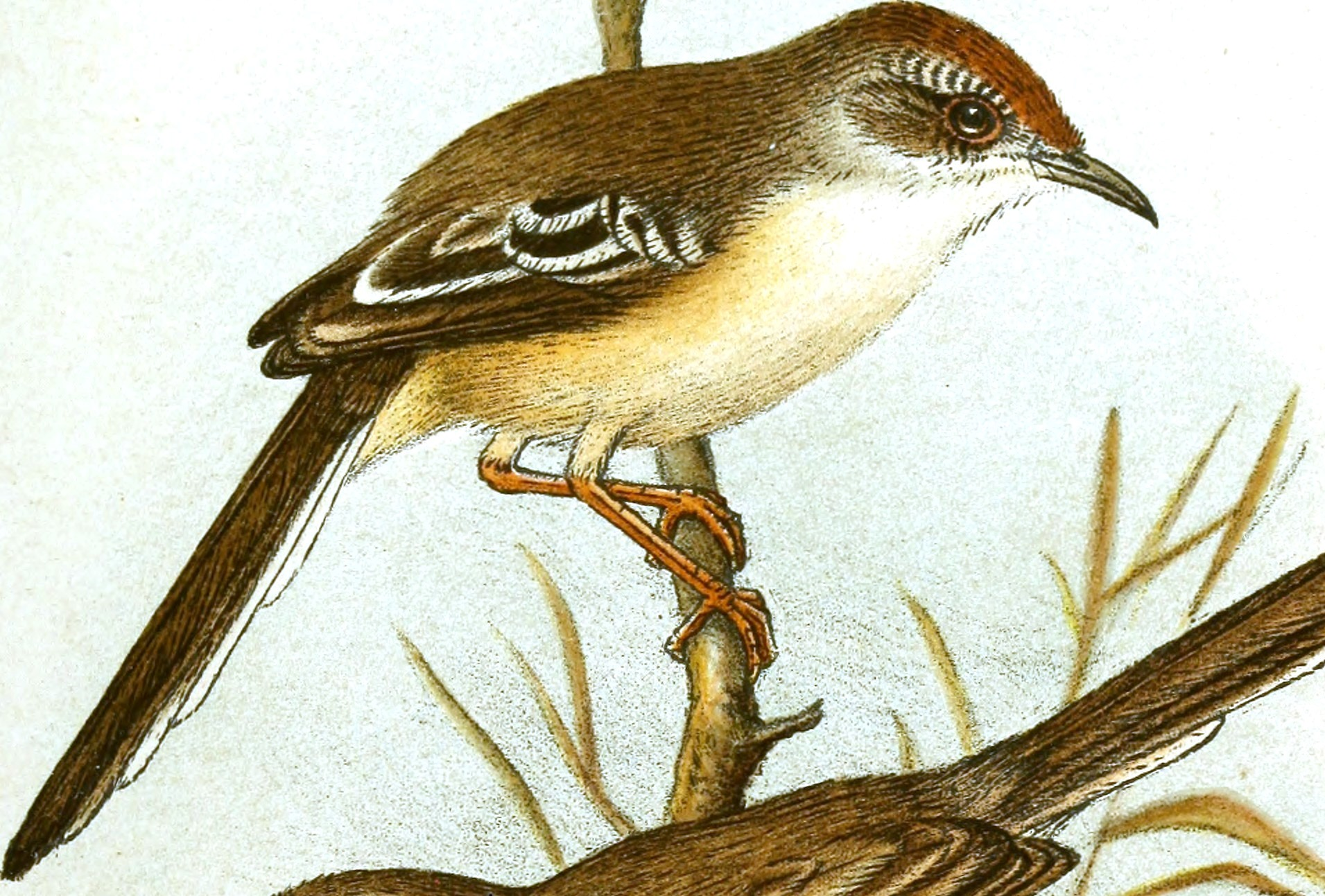 Red-fronted warbler illustrated in the Journal für Ornithologie (1905). It is native to northeastern Africa. Title: Journal für Ornithologie Year: 1853 (1850s) Authors: Deutsche Ornithologen-Gesellschaft Deutsche Ornithologische Gesellschaft Allgemeine Deutsche Ornithologische Gesellschaft Subjects: Ornithology Birds Publisher: Berlin, Friedländer Text Appearing Before Image: Eremomela griseoflava Heugl.Eremomela erlangen Rchw. Steinzeichnung v. 0. Kleinschmidt. Journ. f. Ornith. 1905. Taf. XIX. \ Text Appearing After Image: Apalis erlangen Rchw. Prinia somalica (EH.). Prinia somalica erlangeri Rchw. Steinzeichnung v. 0. Kleinschmidt. Journ- f. Ornith, 1905. Taf. XX.